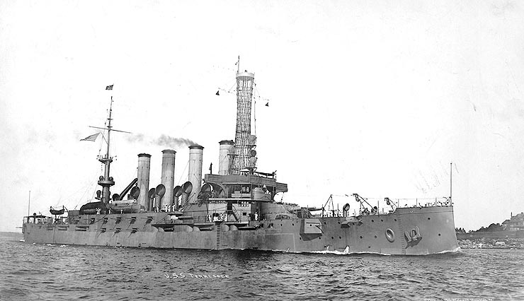 USS Tennessee (ACR-10) underway in 1912 Removed caption read: Photo # NH 99943 USS Tennessee underway, 1912